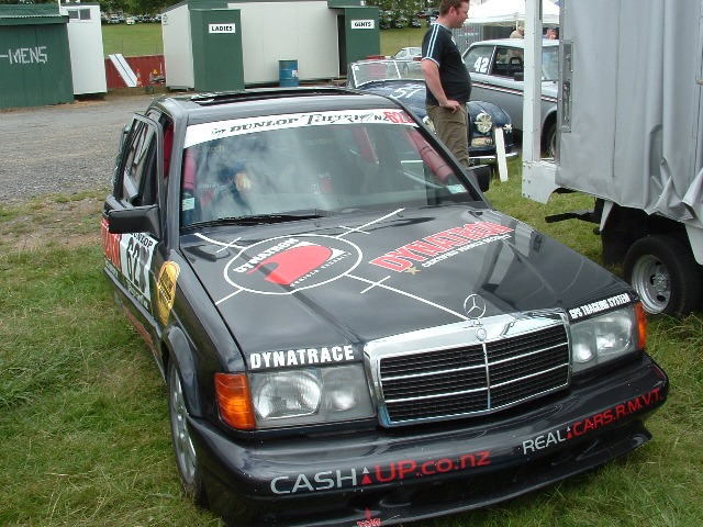 2.3-16 Race Car